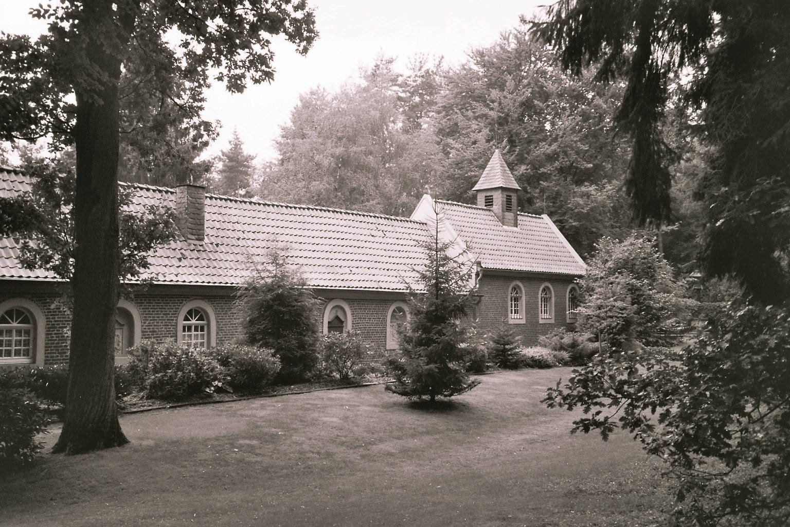 The so called Eremitage in Reken, Westphalia, Germany